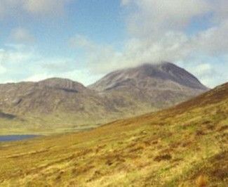 Beinn a' Chaolais, Jura, Scotland. View from the south eastern slope of Beinn Shiantaidh. Loch an t-Siob is in the immediate distance.